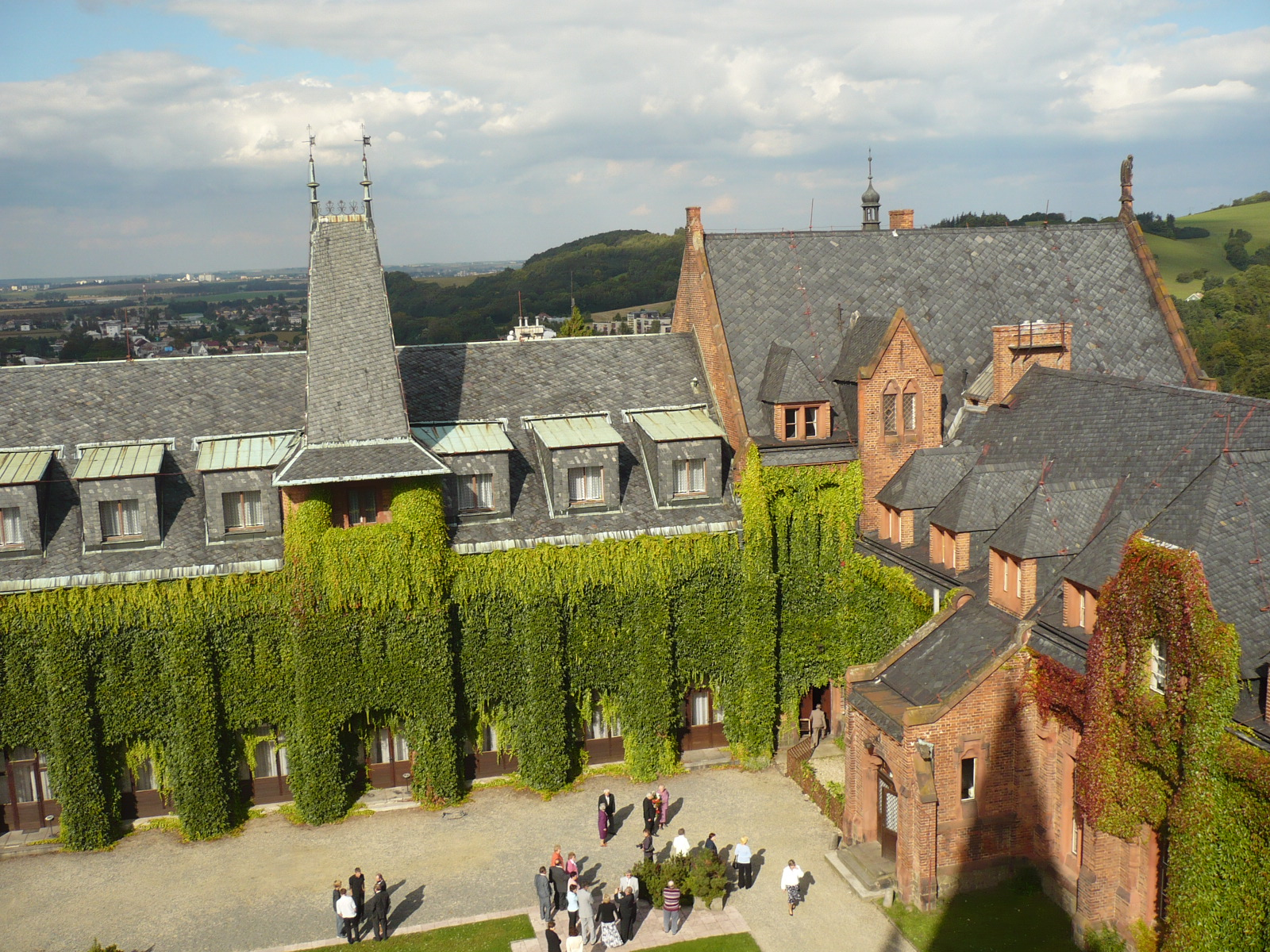 Castle Hradec nad Moravici - lookout from the tower, Czech Republic